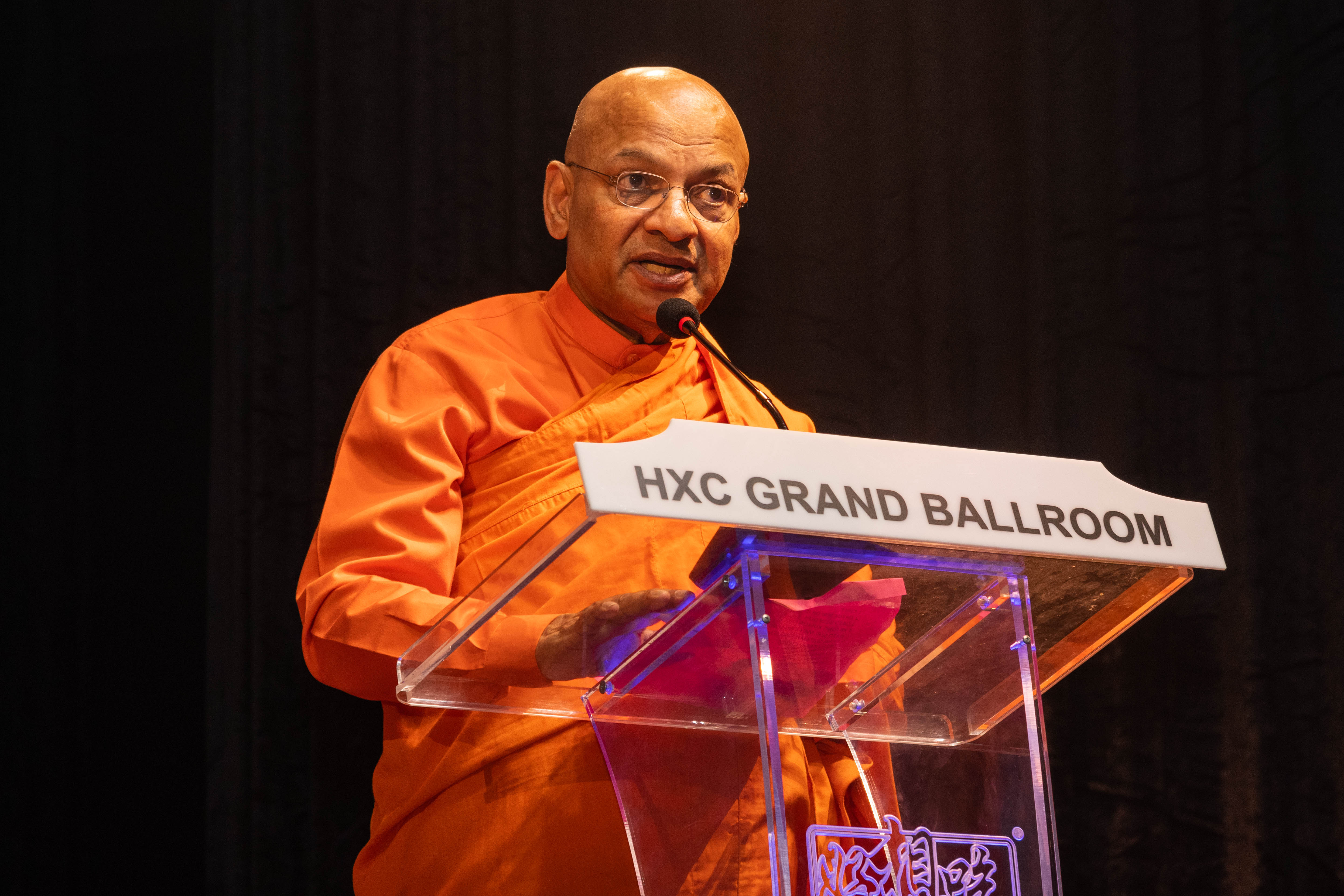 Dhammaratana giving the opening speech at Ti-Ratana Welfare Society's 21st anniversary celebration in 2019.